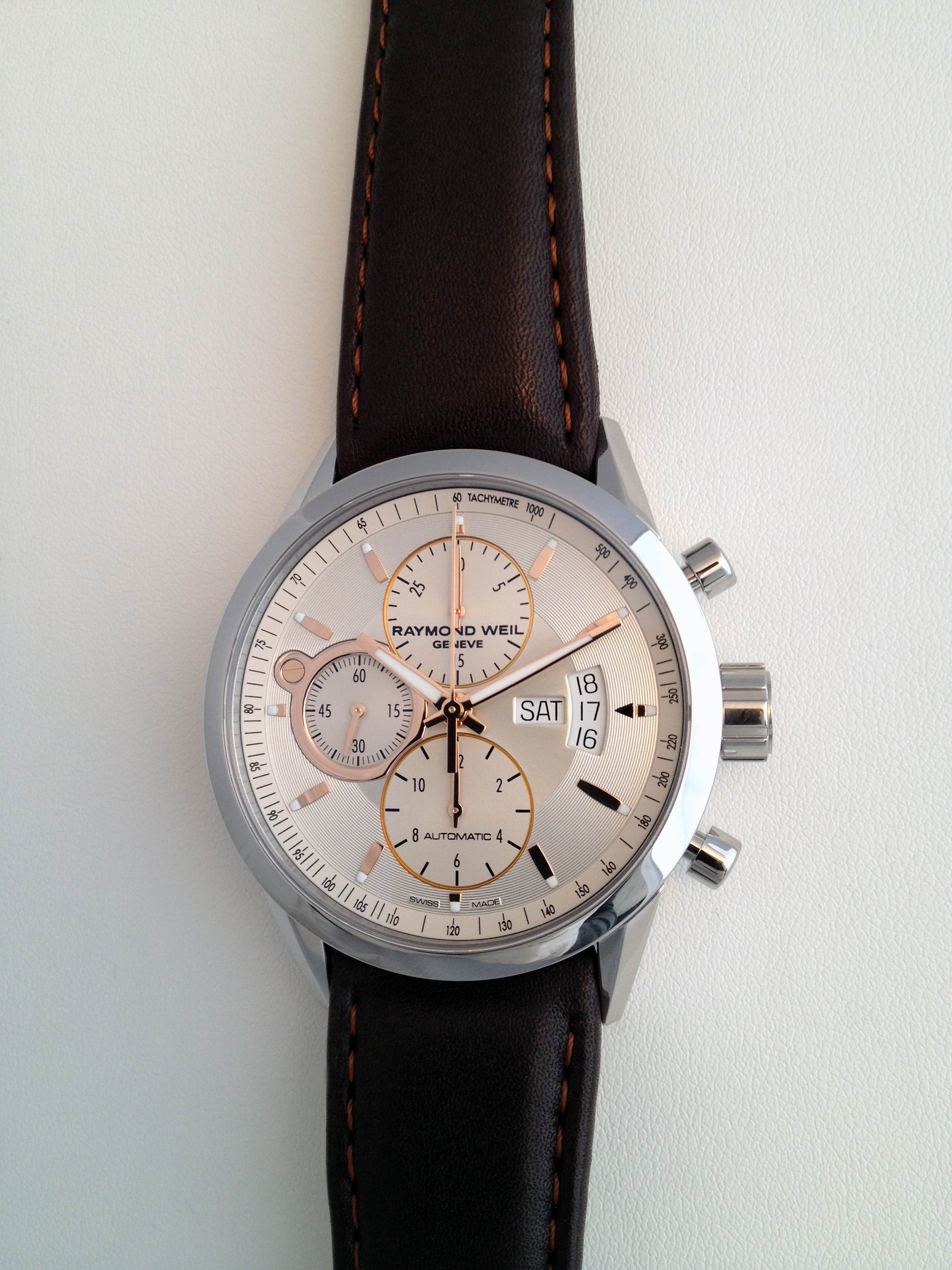 Freelancer 7730-STC-65025 - Automatic chronograph - Steel on leather strap rose gold indexes and hands